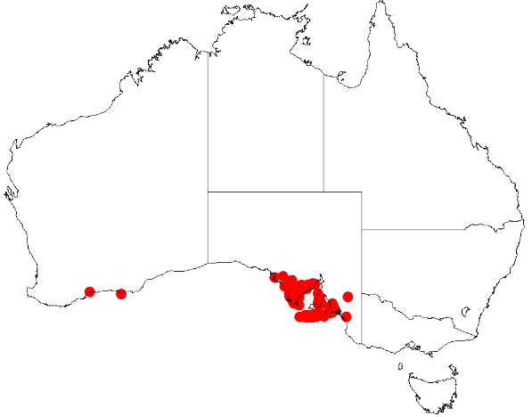 Scaevola linearis occurrence data downloaded from Australasian Virtual Herbarium 12 May 2019